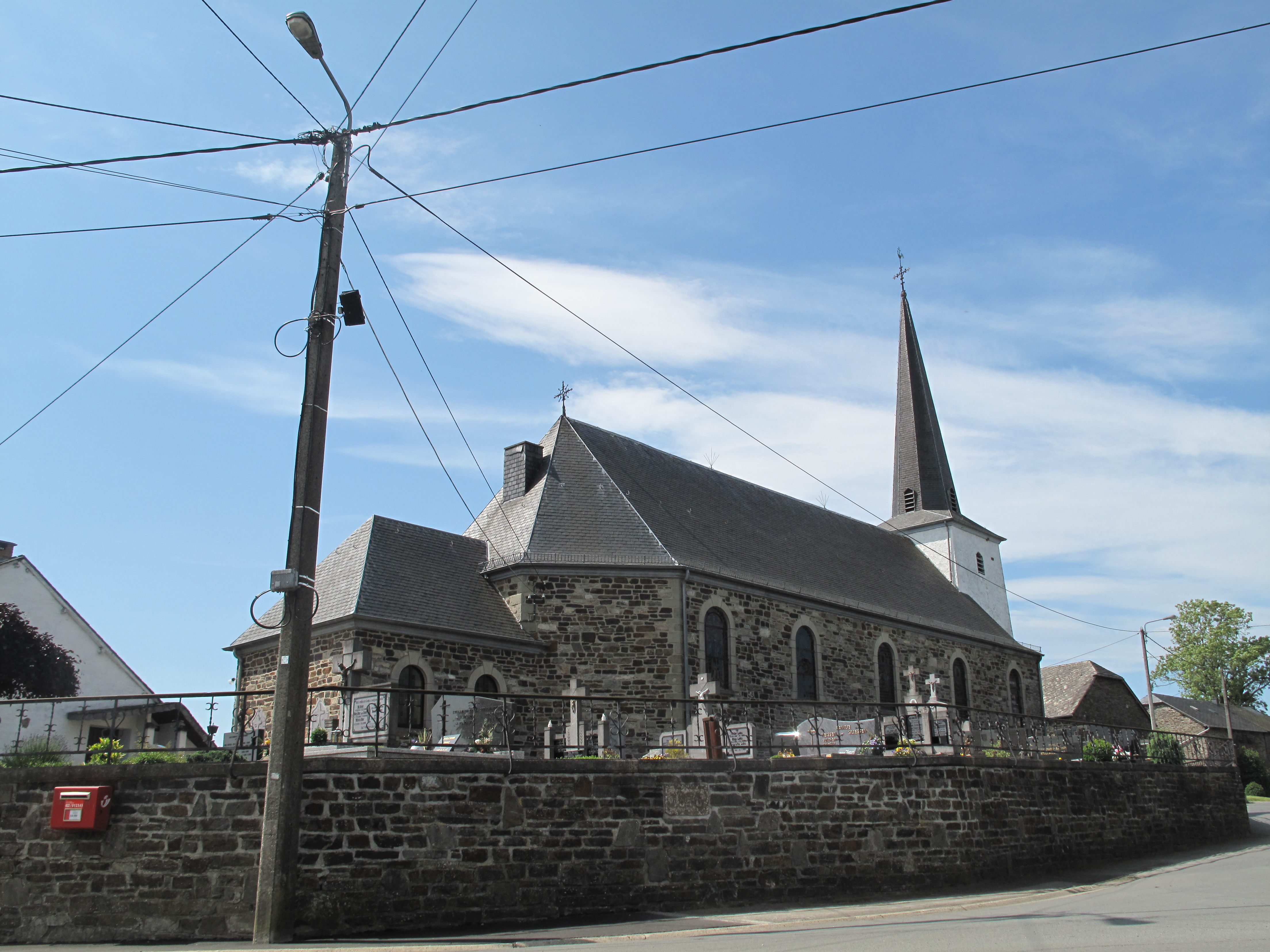 Aldringen, church